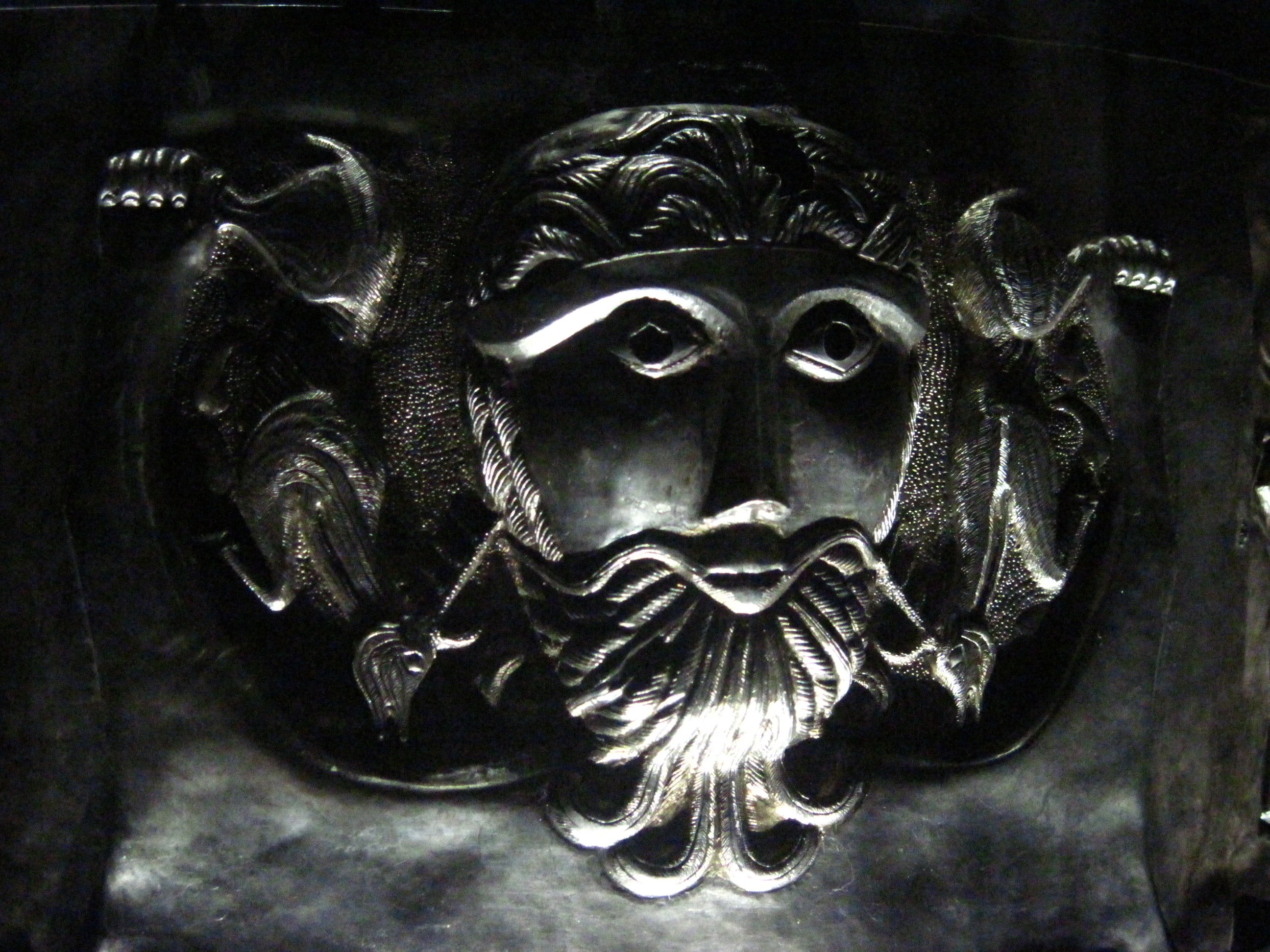 Exterior Plate d from the Gundestrup Cauldron, ca. 150 - 0 BC, Himmerland, Denmark. Displayet at Nationalmuseet, Copenhagen.